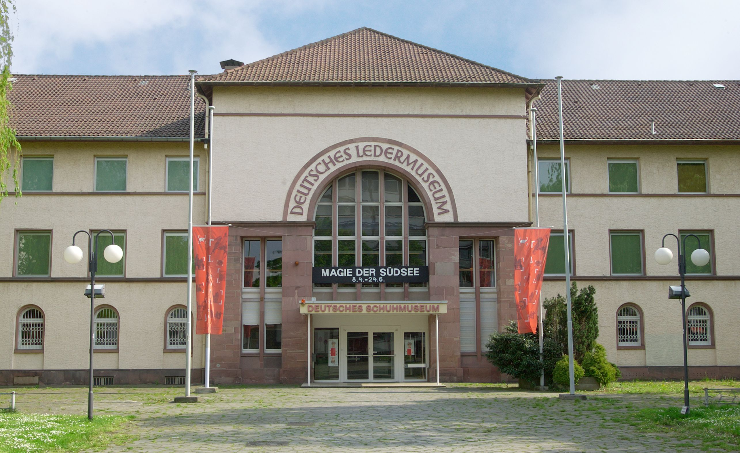 German Leather Museum